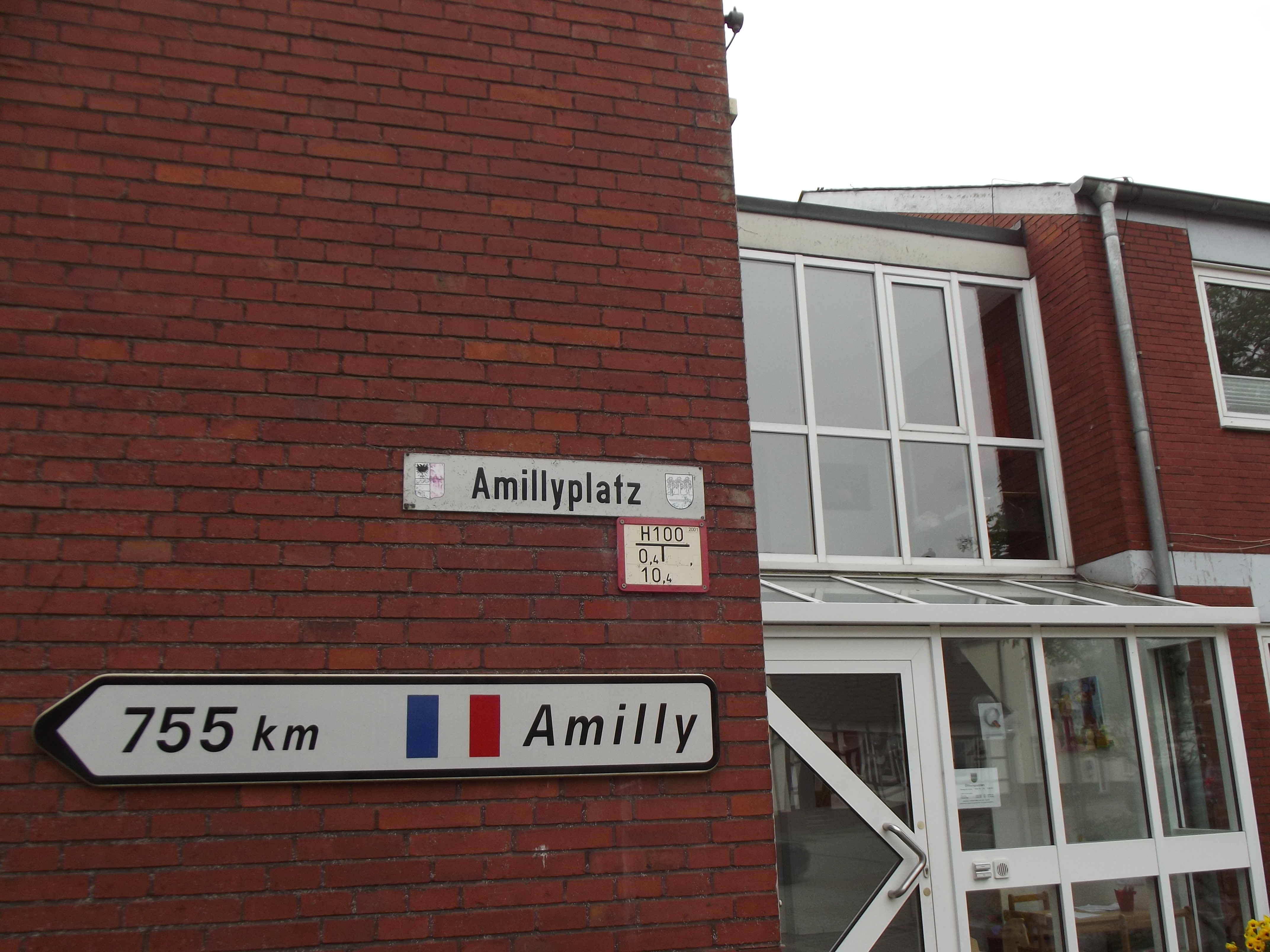 A guidepost showing the direction to Nordwalde's twintown Amilly in France